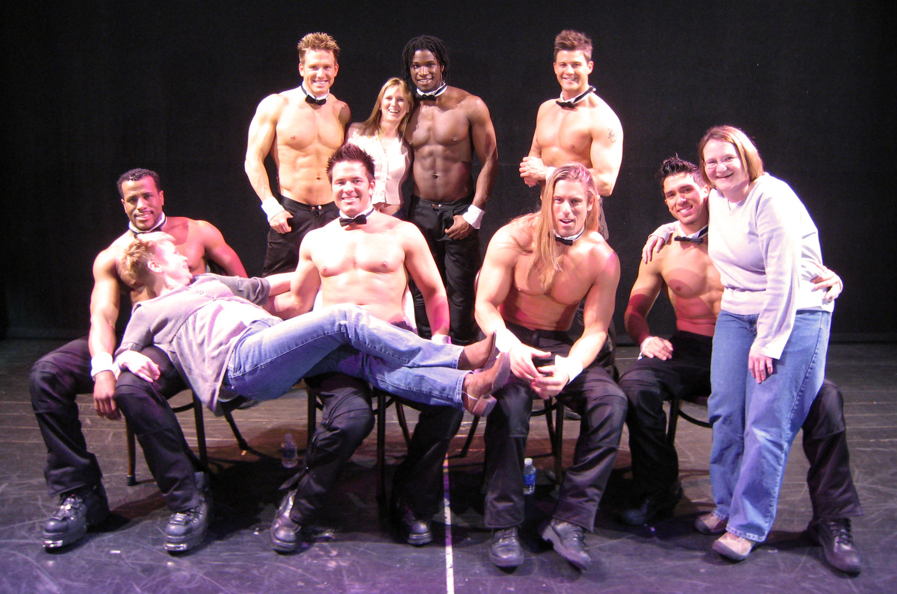 I laughed so hard I was crying during the whole show while the other ladies in the room were seriously into them. Our photo with the Chippendales after the show. Annemari proceeded to fall off their laps. Las Vegas NV, 2/15/2008